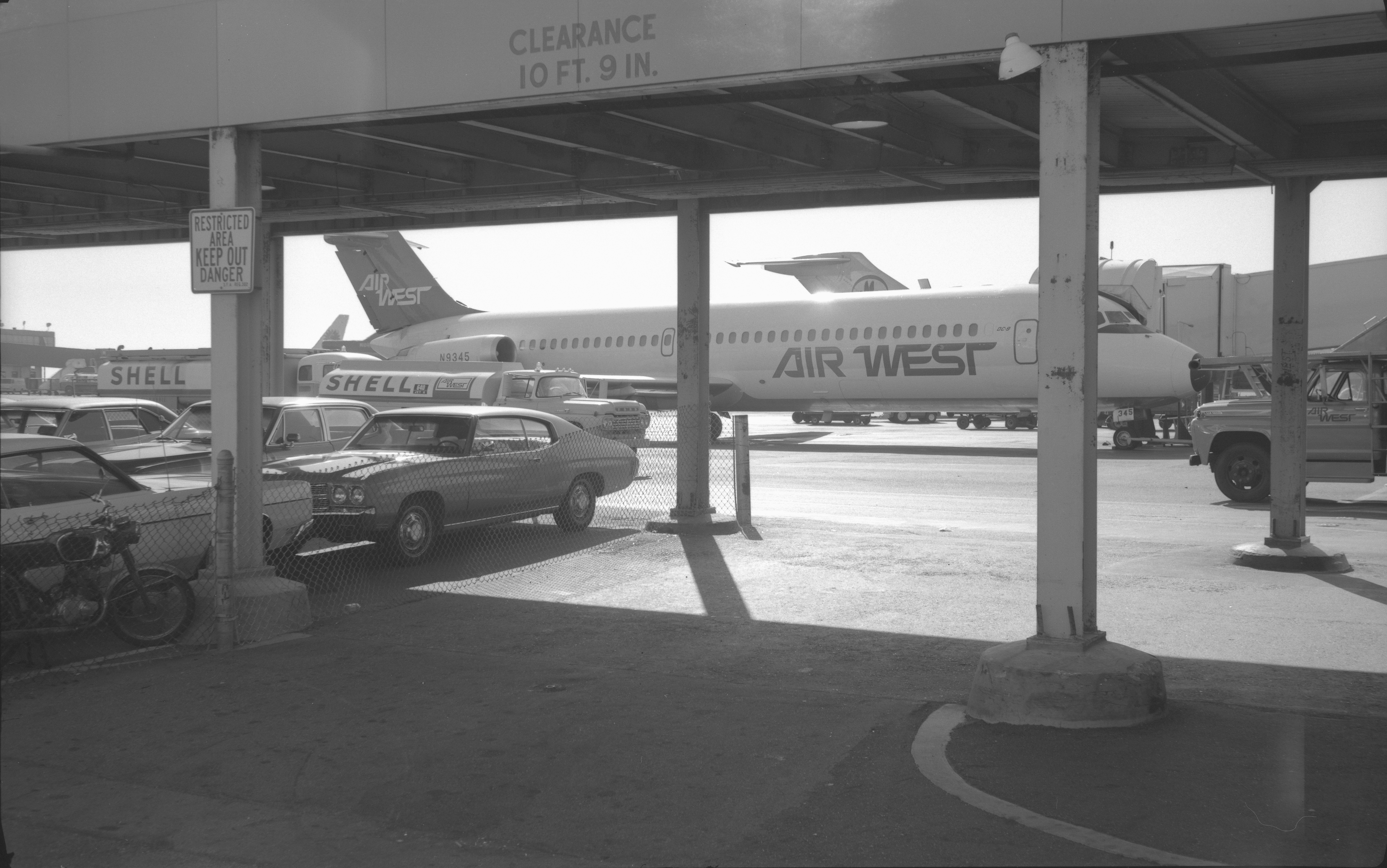 SFO 1969. W.O. June 1971 Duarte California mid-air with Marine F-4B Phantom